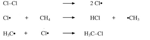 fdsafas